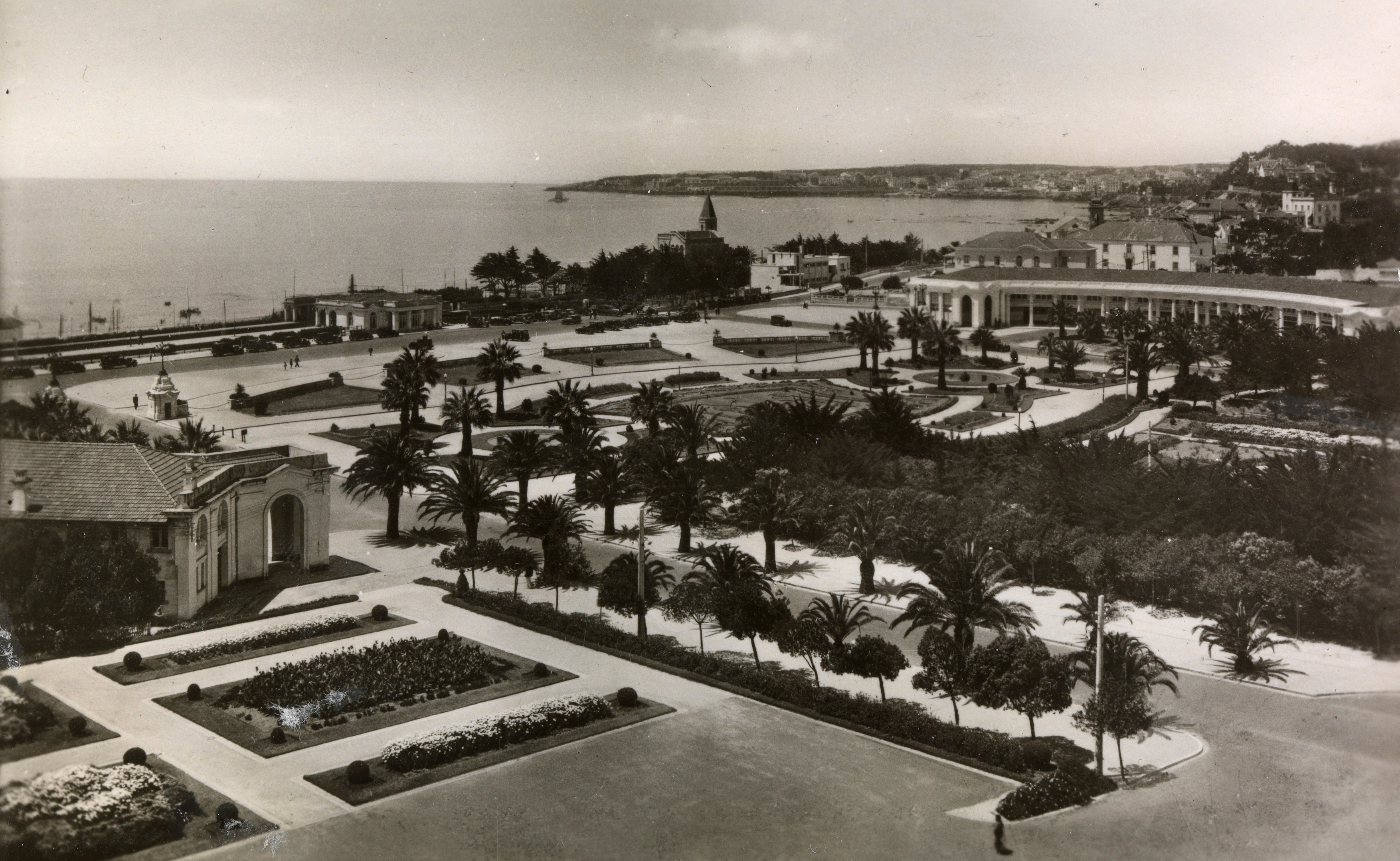 Estoril, Portugal